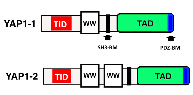 Shows actual modular structure of YAP. There is no crystal or NMR structure of YAP1 known. The previous model shown mainly a small portion of YAP1, its WW domain